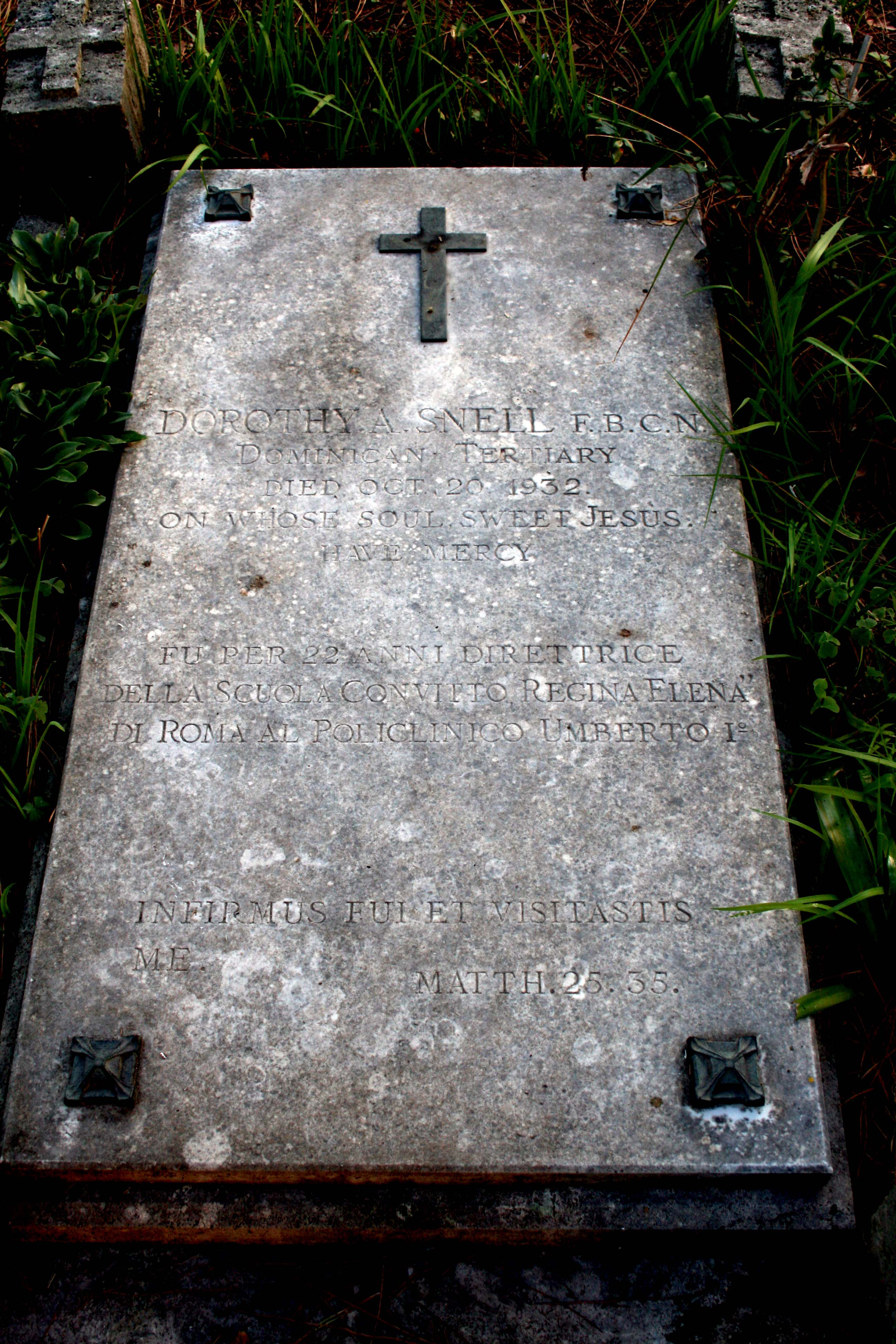 This is Dorothy Snell's tomb, in the monumental cemetery of Campo Verano in Rome.